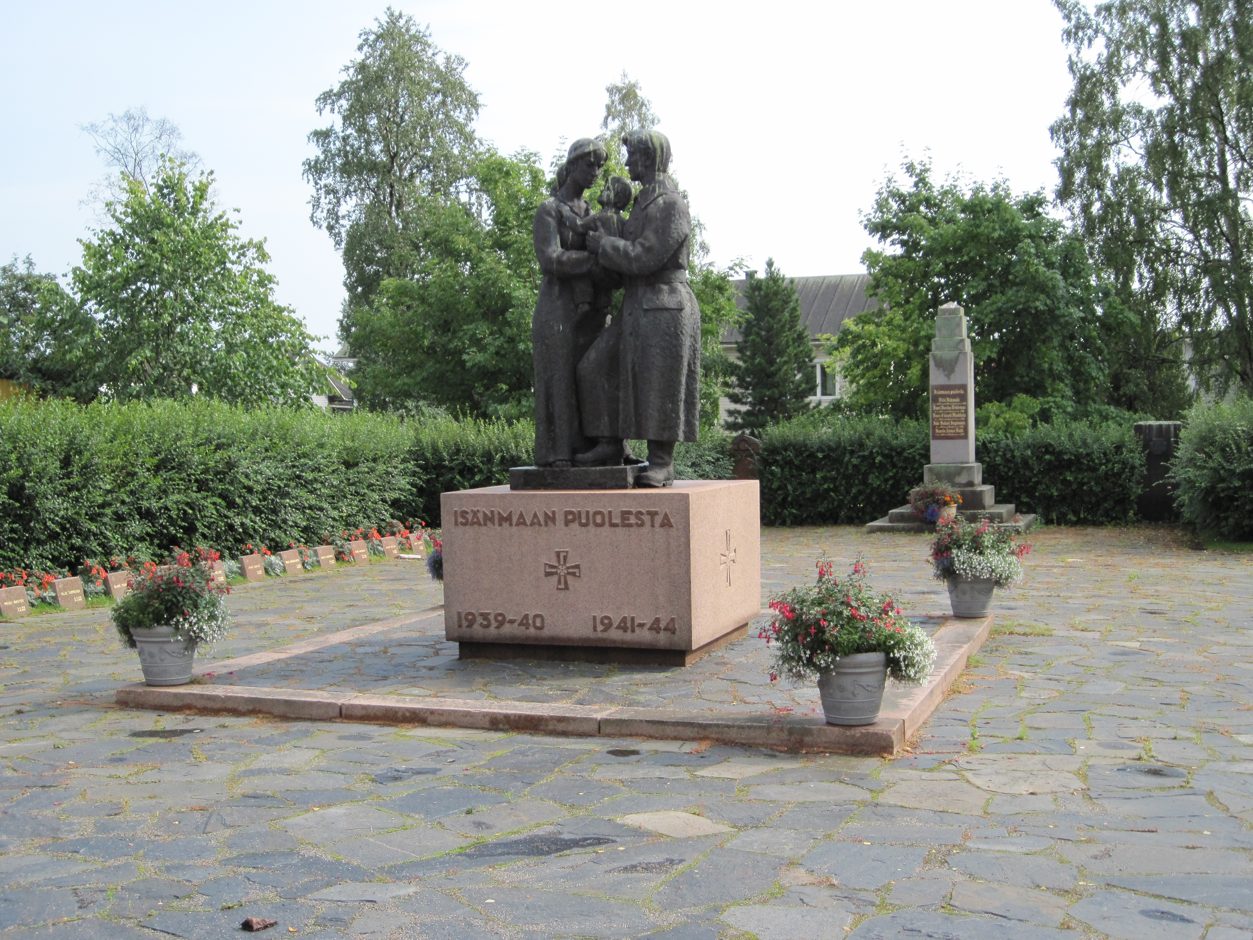 Military cemetary at Raahe church in Raahe, Finland